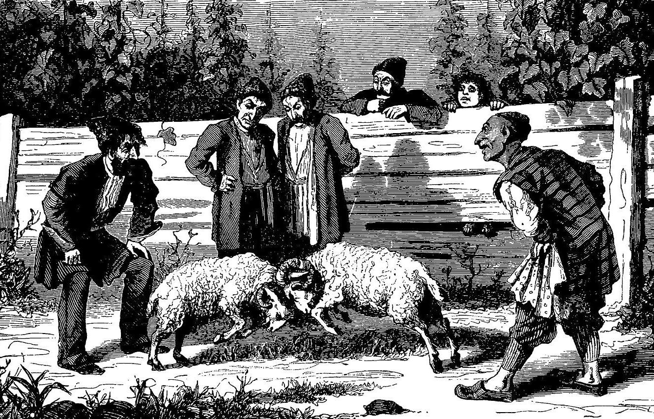 Ram fighting in Tiflis (Roskoschny, 1884)